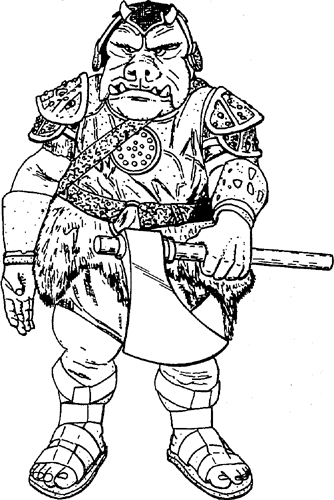 Drawing of a Gamorrean action figure from the Star Wars saga